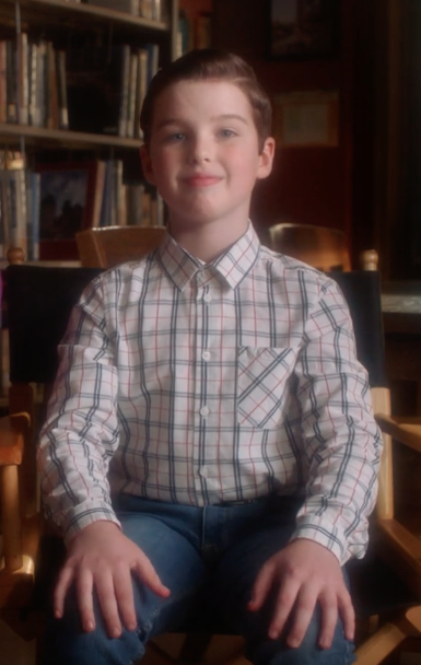 Annie Potts & Iain Armitage WPE PSA Food Rescue